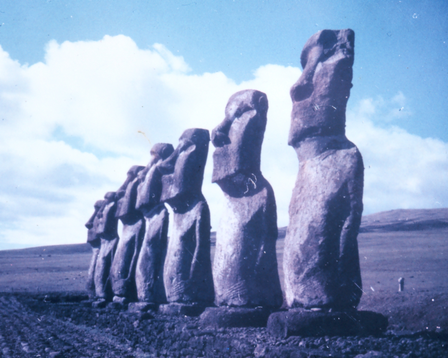 Moai Statues at Ahu Akivi on Easter Island.